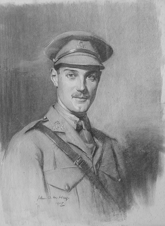 Walter D'Arcy Hall in Uniform (Drawing)